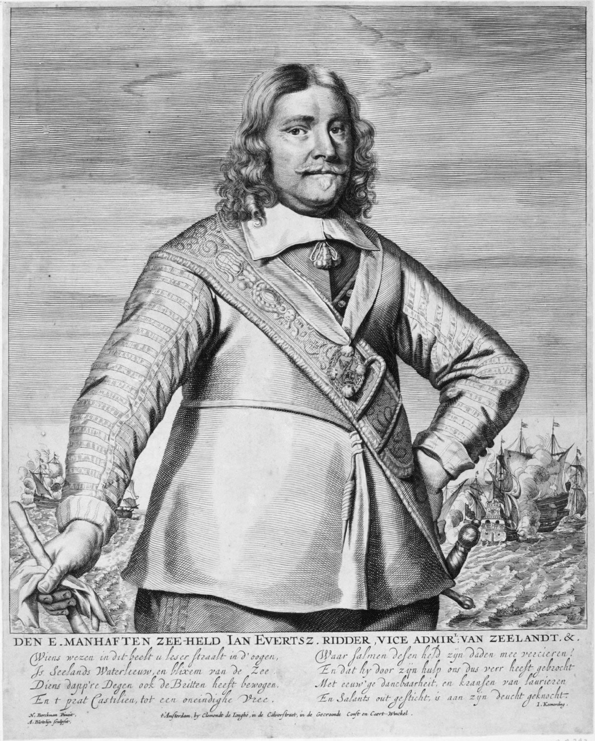 Admiral Jan Evertsen engraving 42.7 x 34.1 cm ca 1665-1672(?)